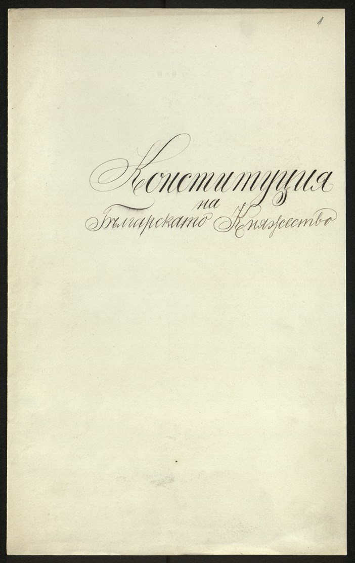 Tarnovo Constitution, Bulgaria, 1893.